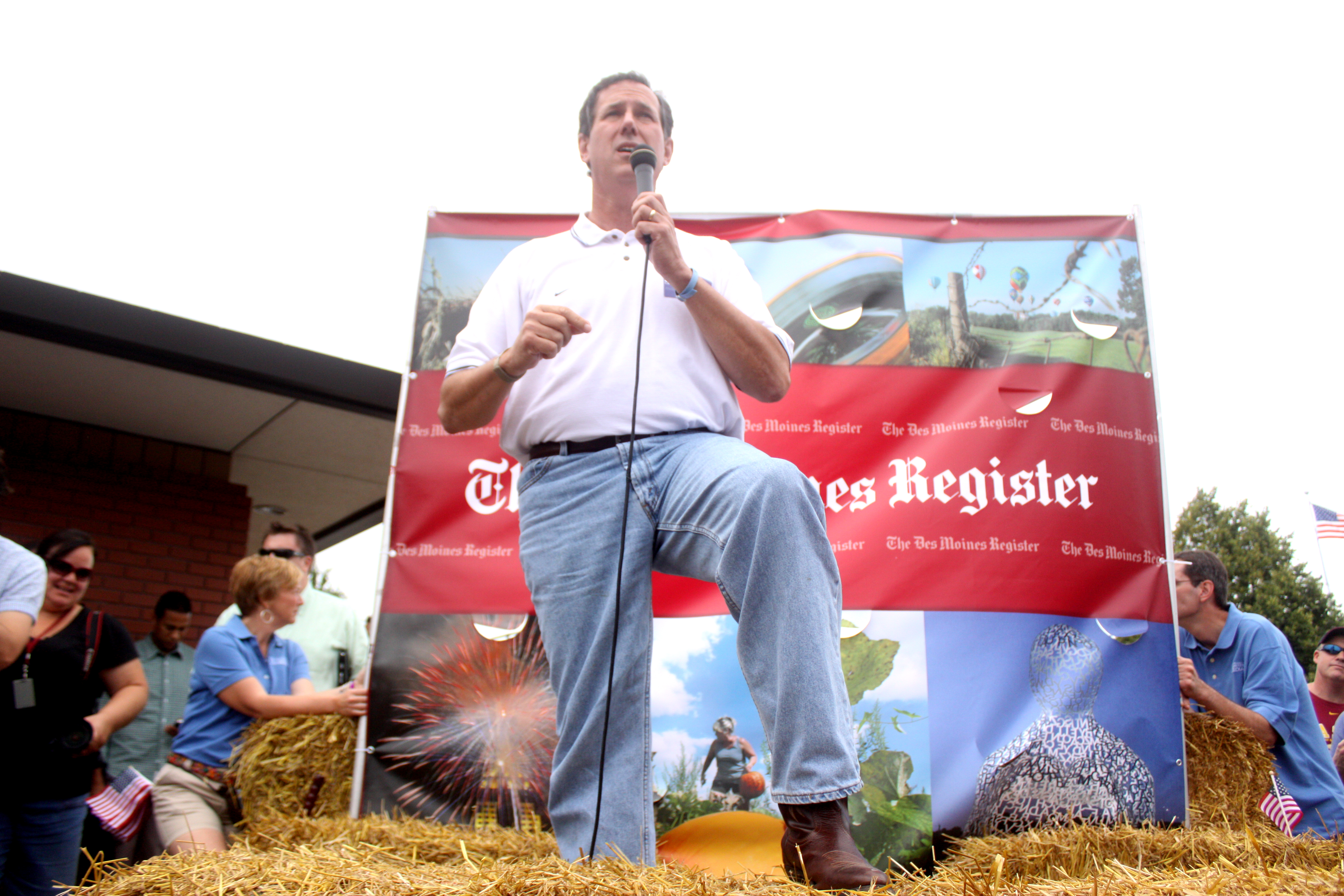 Rick Santorum at the Iowa State Fair in Des Moines, Iowa, ahead of the Ames Straw Poll.